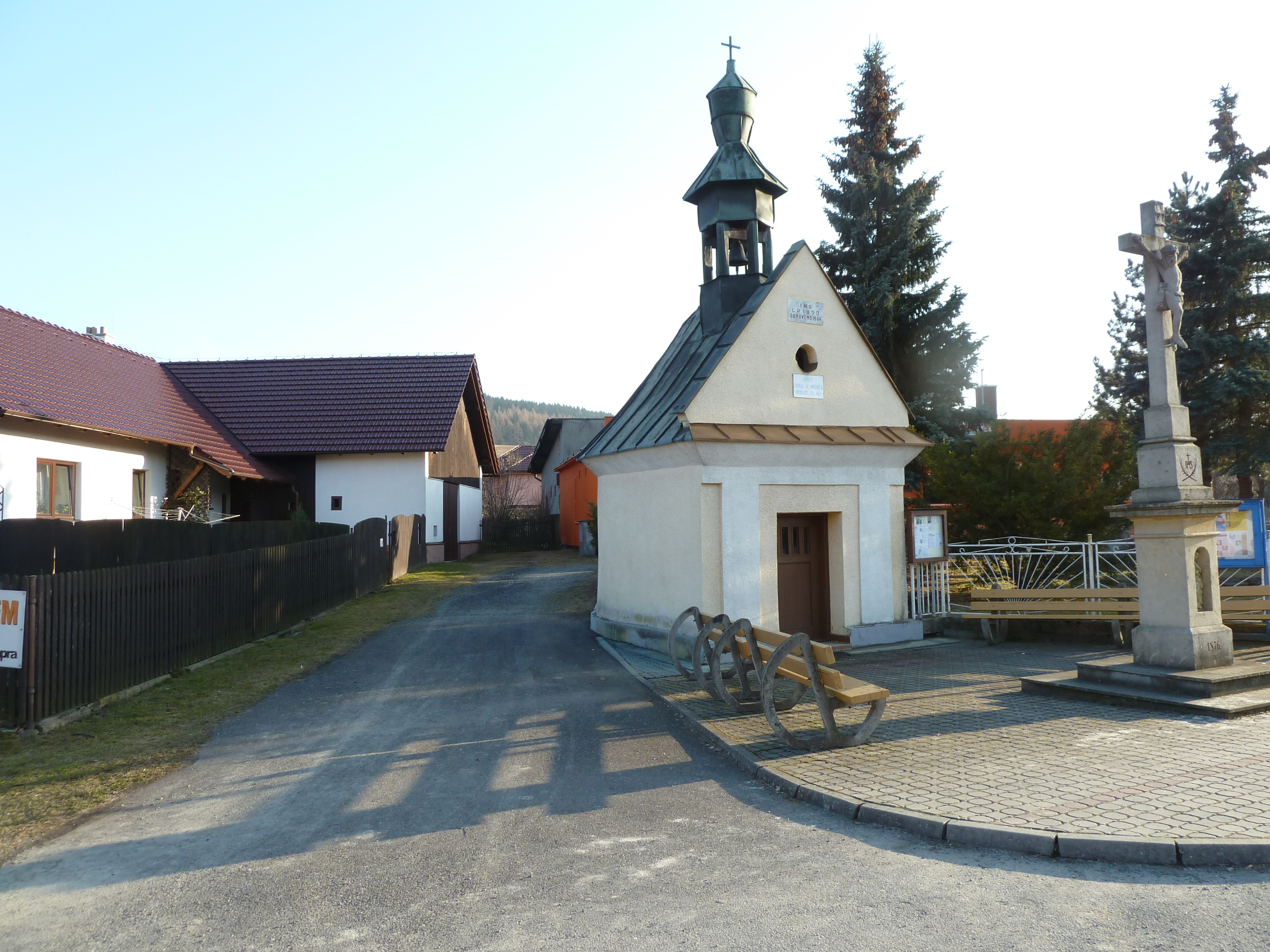 A chapel in village Hostašovice (Nový Jičín district, north-eastern Moravia, Czech Republic)